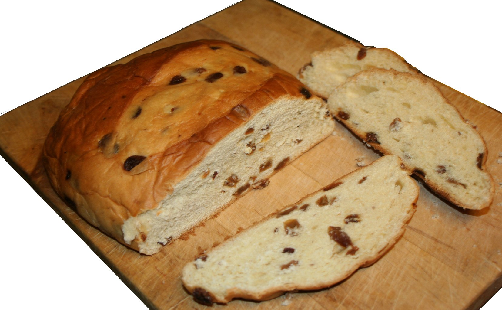 Easter Bread Buyed in Germany